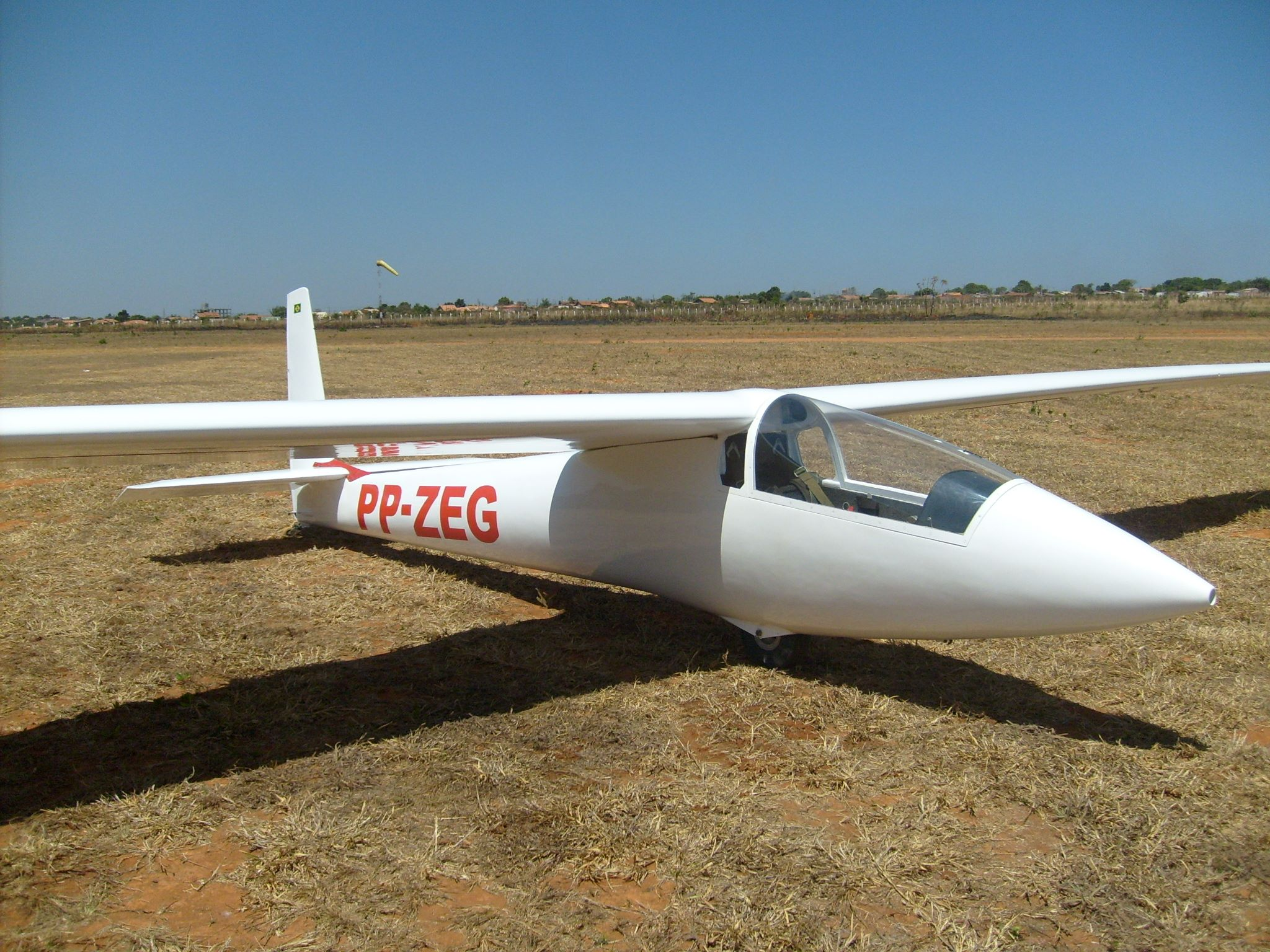 Falcon sailplane